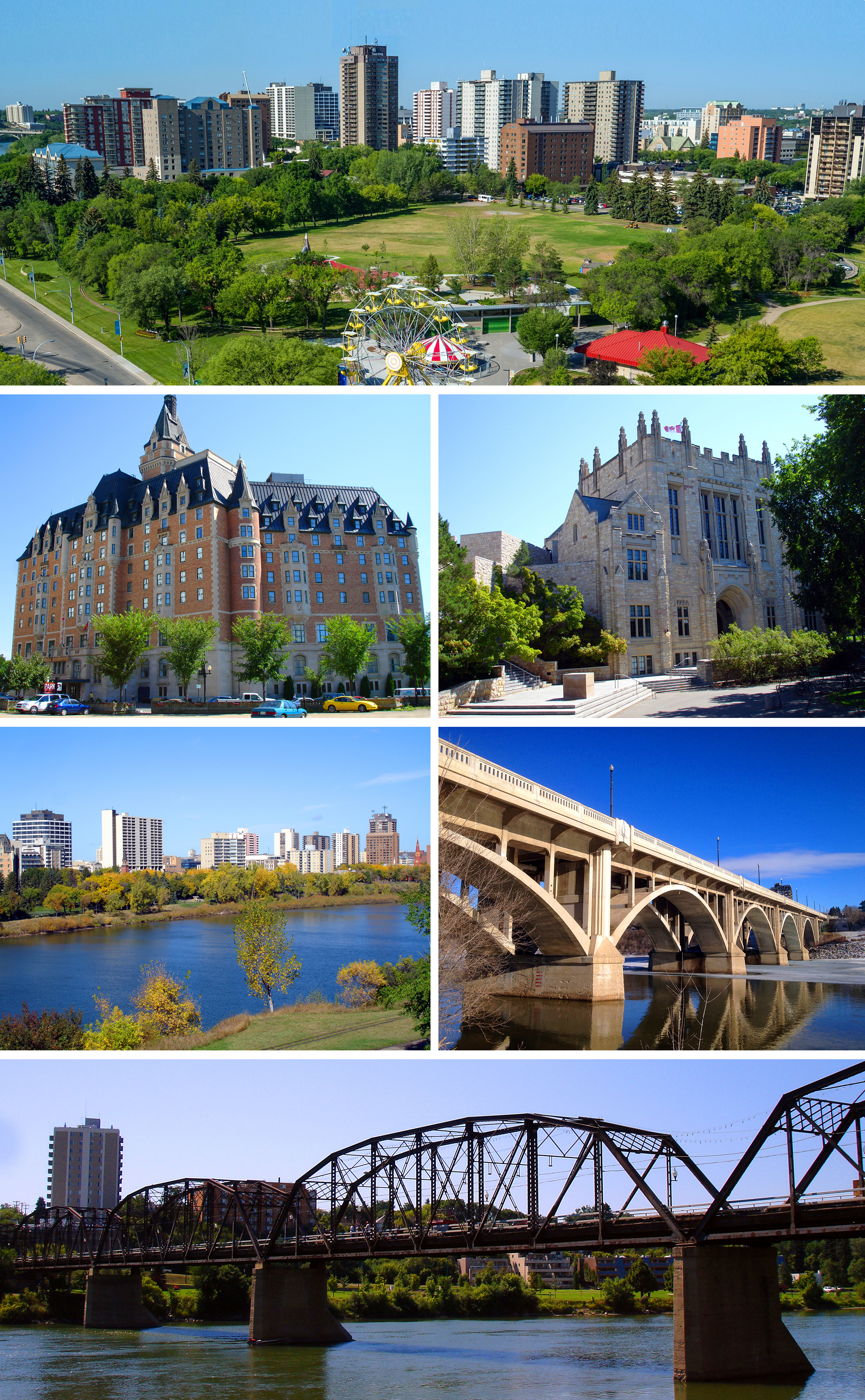 This is a montage of Saskatoon for 2020